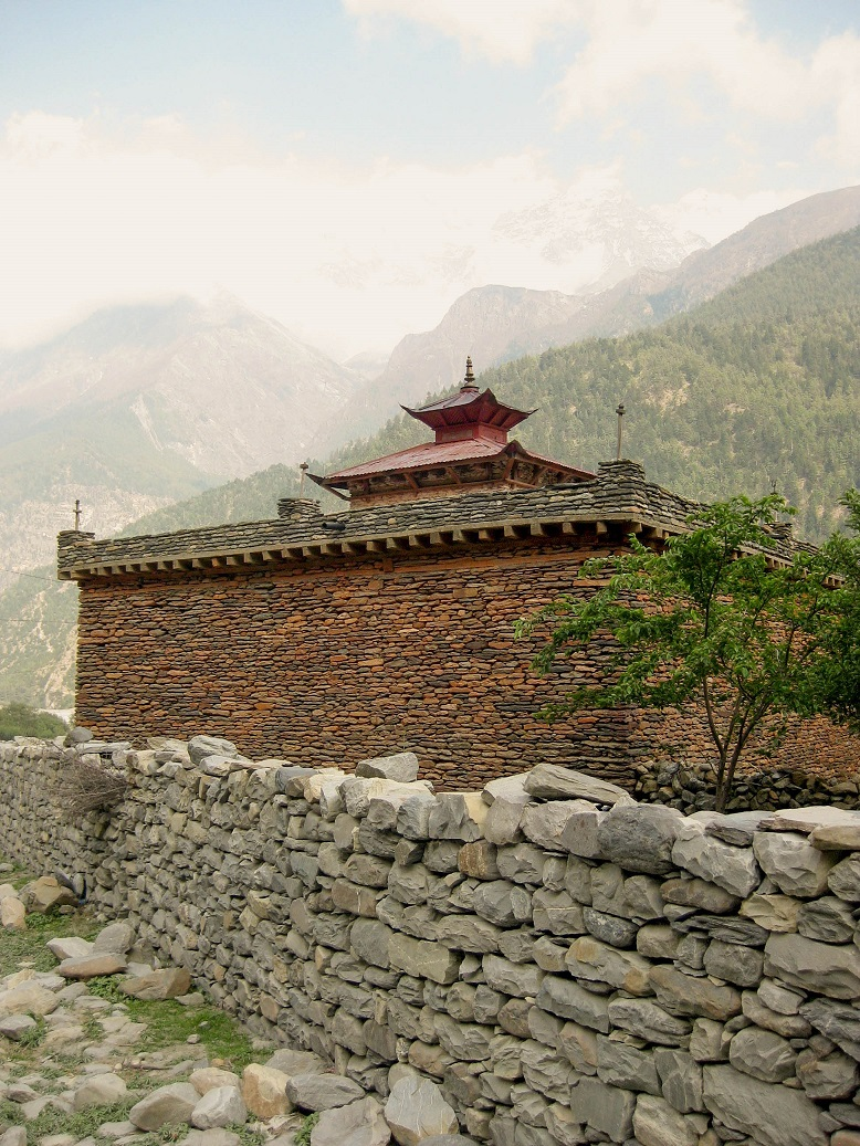 Shamba/ Shmabha/ Tsamba gompa (Kamtsang Dargye Choekhorling Monastery), Tukuche, Mustang, Nepal